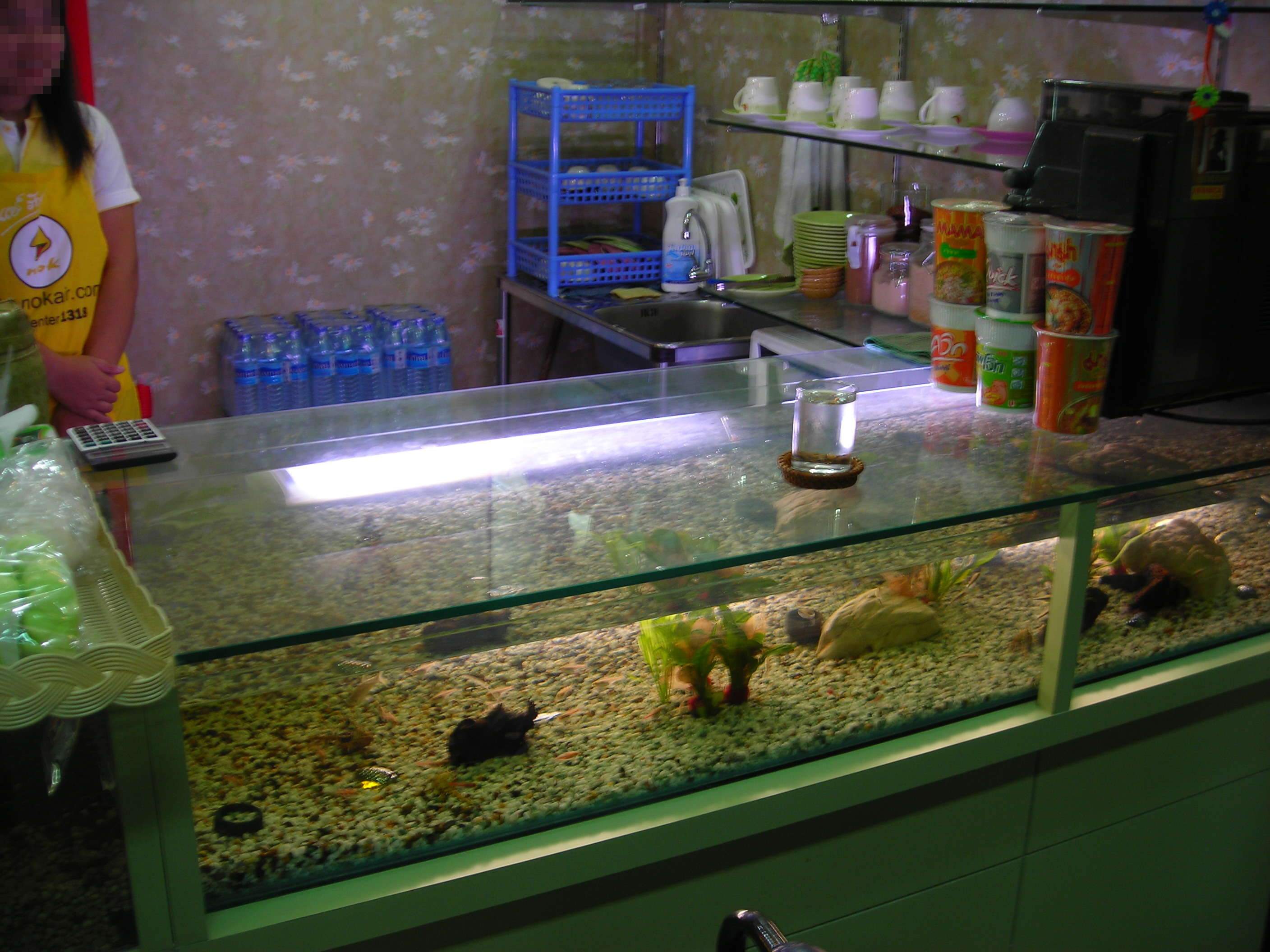 Bar counter with integrated aquarium, seen at Udon Thani International Airport — passenger area at 1st floor, Thailand.